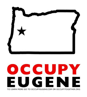 Poster for Occupy Eugene in Eugene, Oregon. Note: While copyright is claimed on the source site, a fair-use stipulation exists within the claim (verbatim): "Please feel free to distribute any of the original content on this site across the internet."